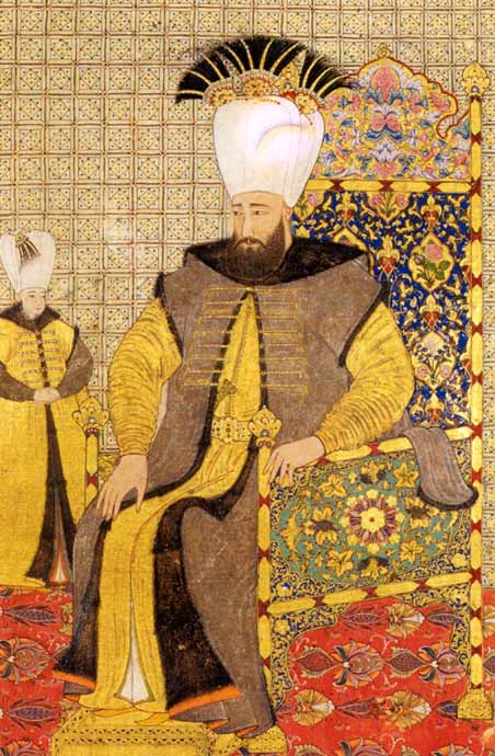 Sultan Ahmed III sitting, next to him the young heir to the throne. Ottoman miniature painting, kept at the Topkapı Sarayı Müzesi, Istanbul (Inv. A 3109, Fol 22v)